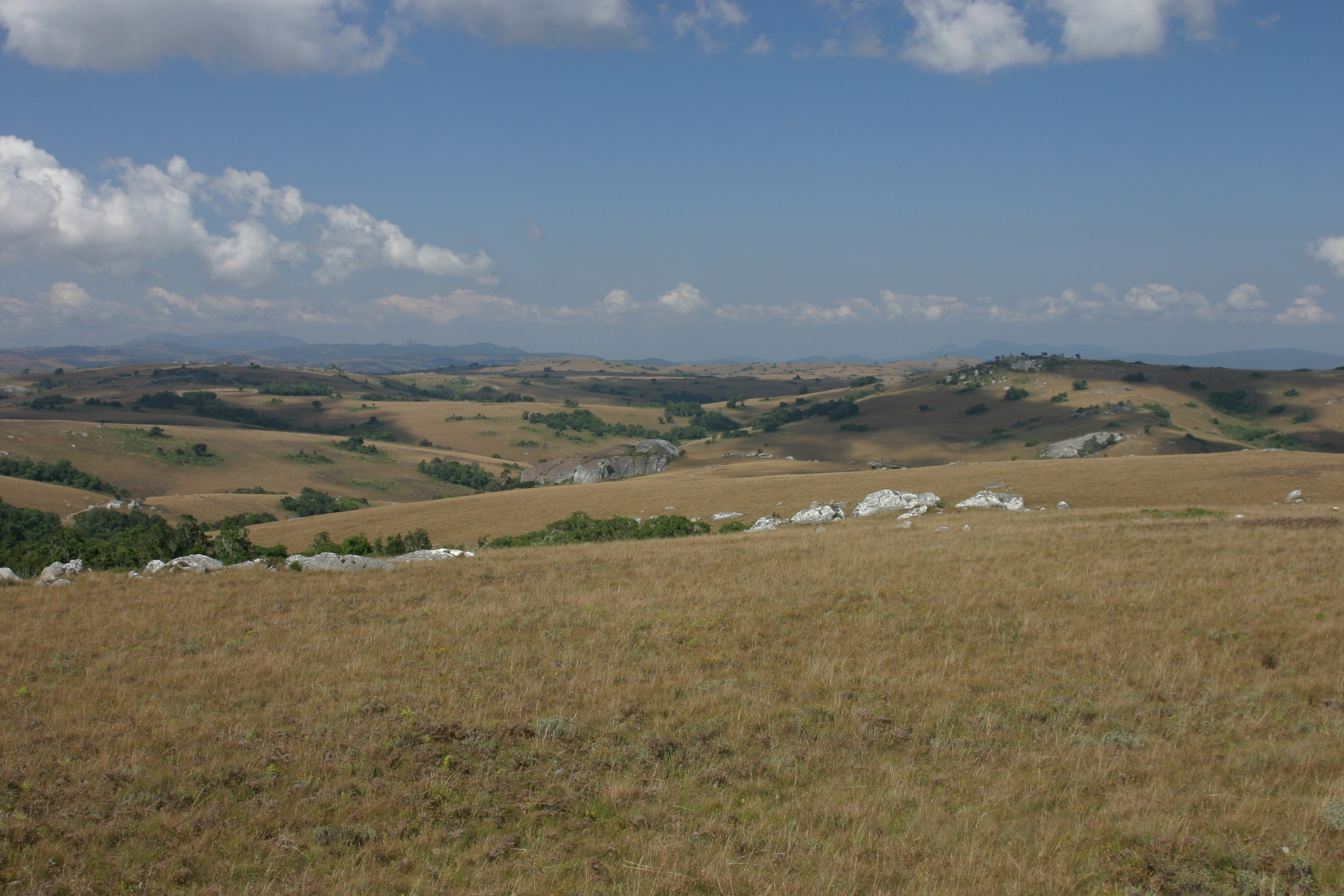 Typical Landscape of the Nyika Plateau: Grassland interspersed with patches of afromontane forest